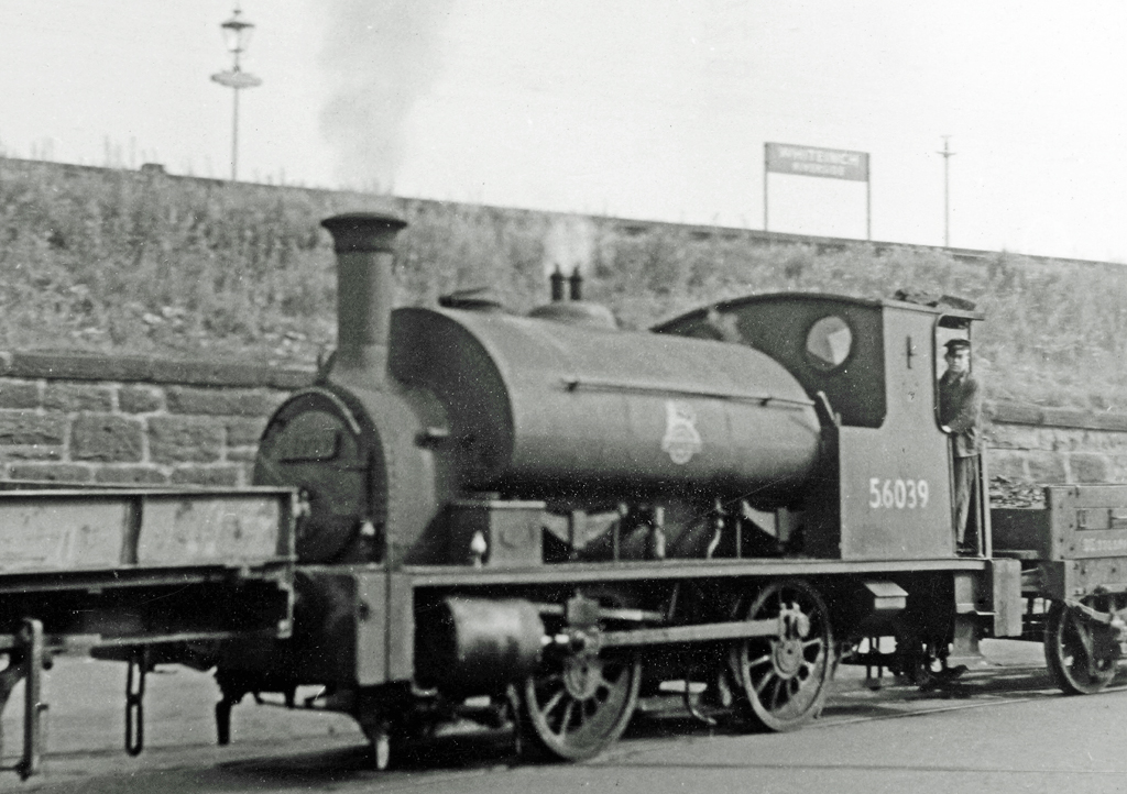 Caledonian Railway Class 264 0-4-0ST 56039 shunting at Whiteinch Glasgow in 1958